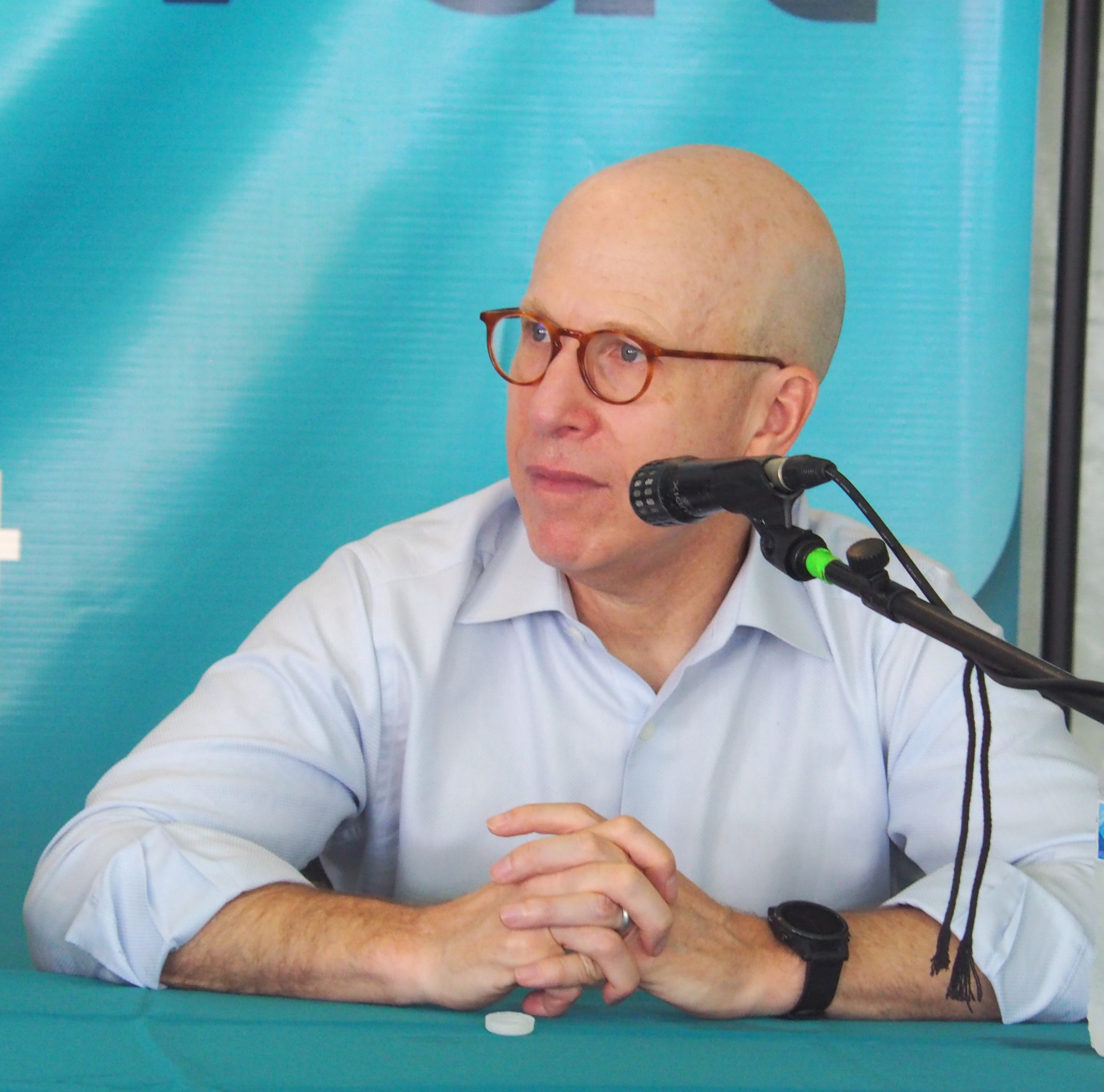 Jonathan Eig